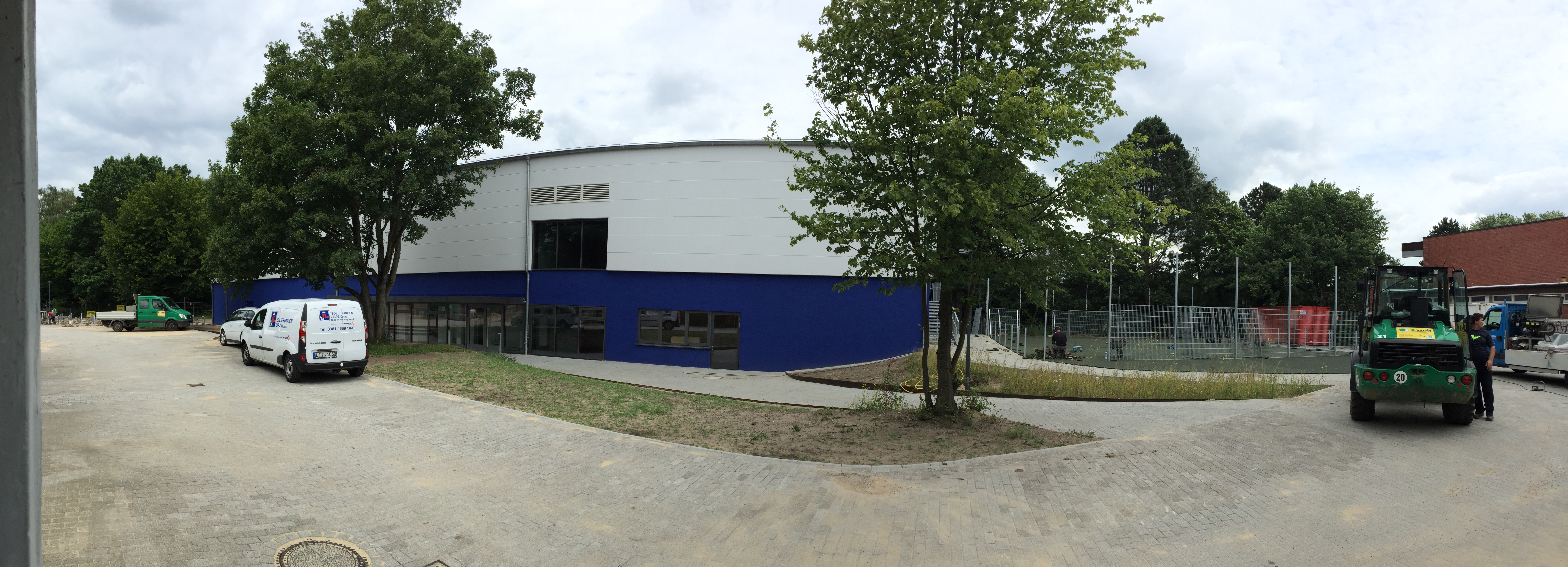 New gym of the Gymnasium Oberalster in Hamburg, Germany.